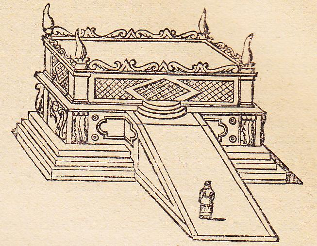 the brasen altar at the tabernacle